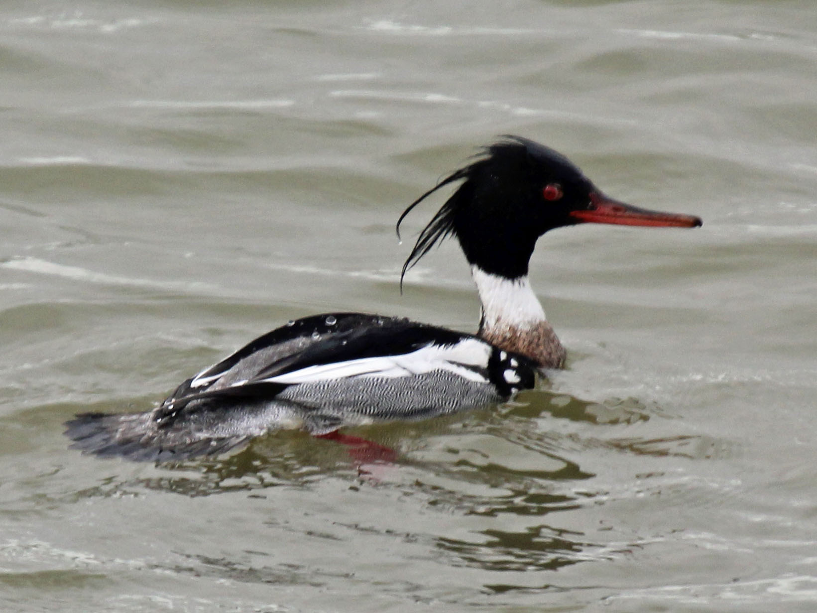 Male Red-breasted Merganser (Mergus serrator) - New Orleans, Louisianna